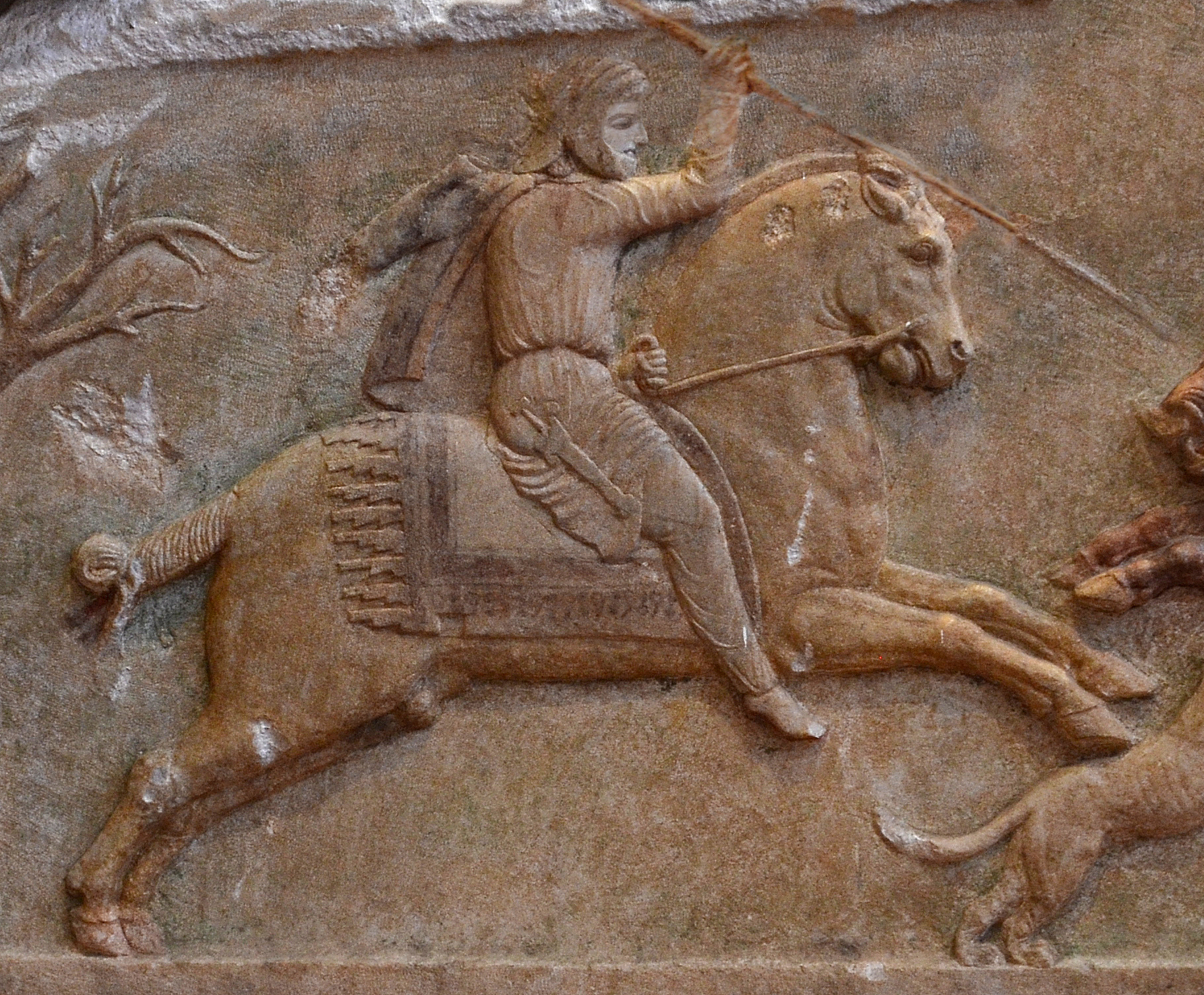 Similar depiction of a Satrap on a coin.Altıkulaç Sarcophagus hunting scene (hunter detail with tiara)